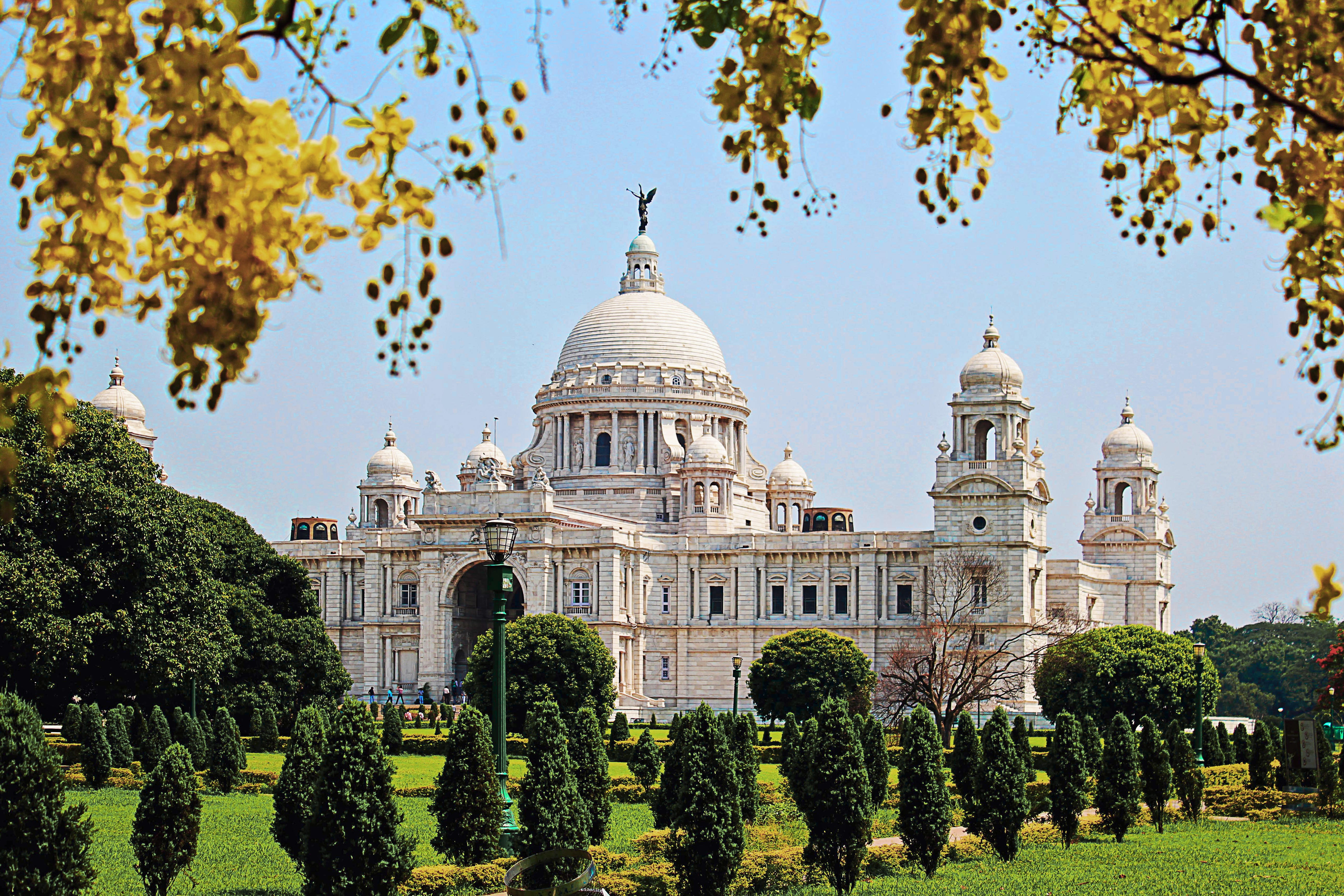 The Victoria Memorial, officially the Victoria Memorial Hall, is a memorial building dedicated to Victoria, Queen of the United Kingdom and Empress of India, which is located in Kolkata, India – the capital of West Bengal and a former capital of British India. It currently serves as a museum and a tourist attraction.It is an autonomous organization within the Government of India's Ministry of Culture.